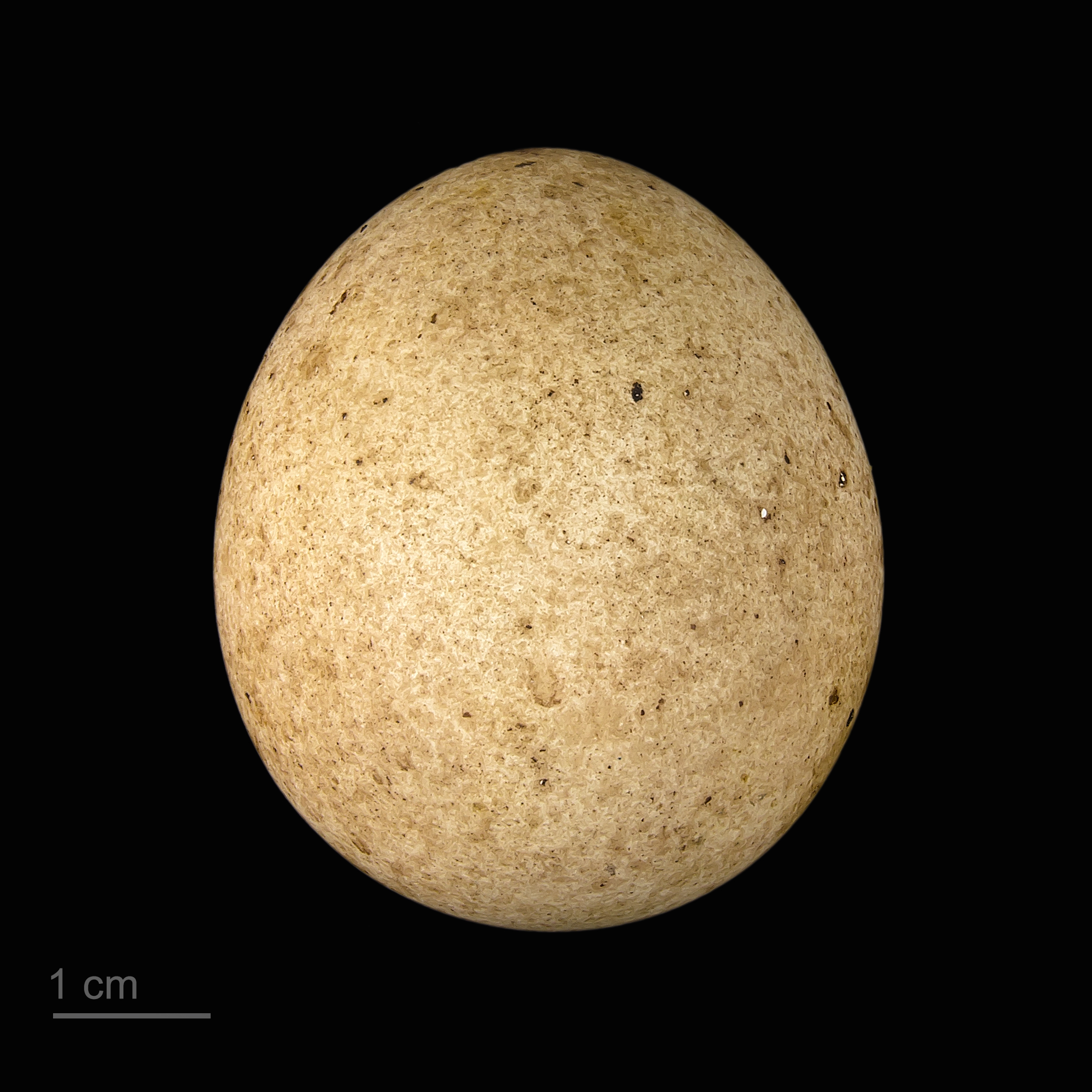 Egg of Eleonora's falcon collection of Jacques Perrin de Brichambaut.